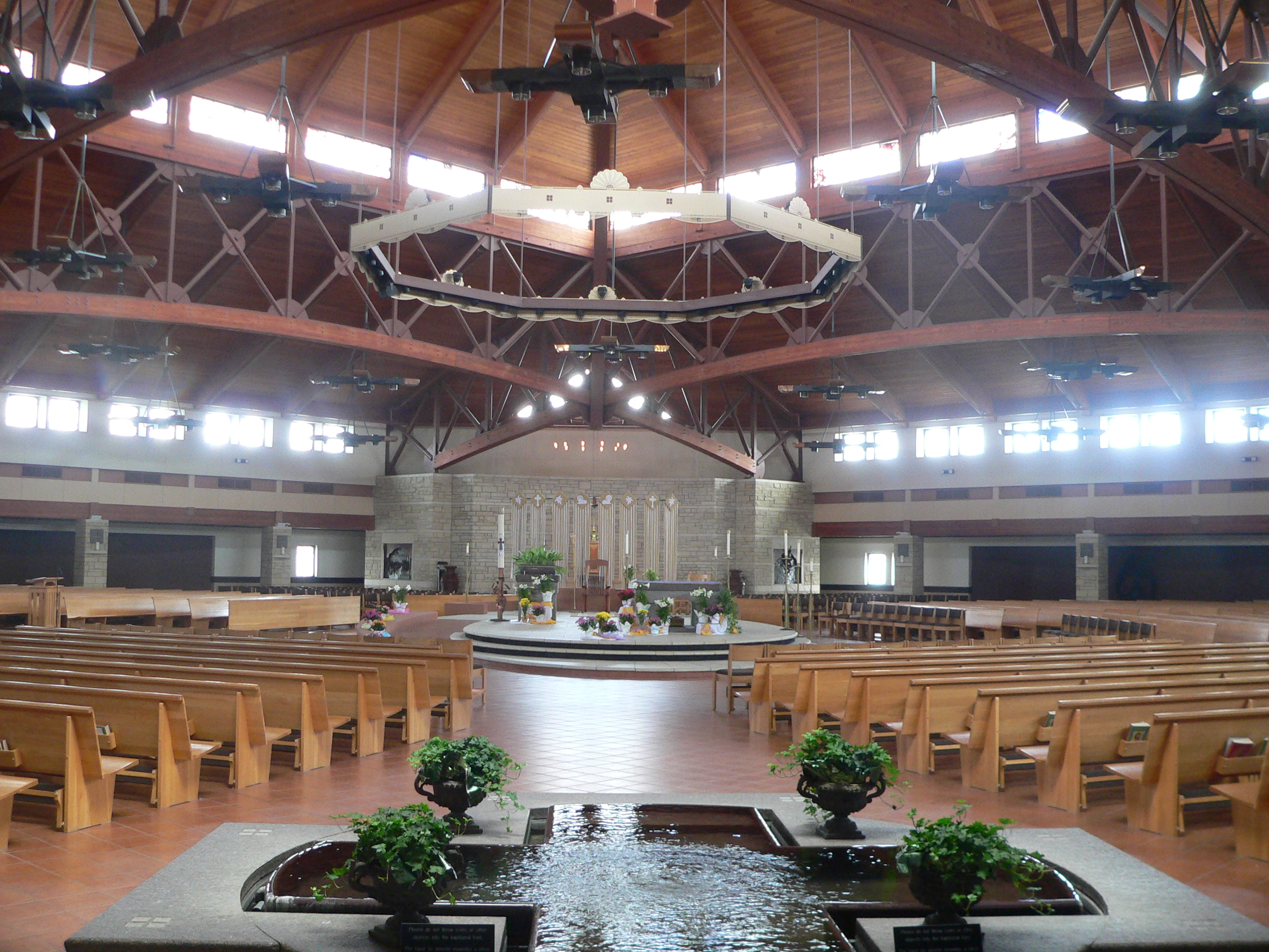 Interior of Our Lady of Guadalupe Cathedral, at 3231 N. 14th, at the northern edge of Dodge City, Kansas.